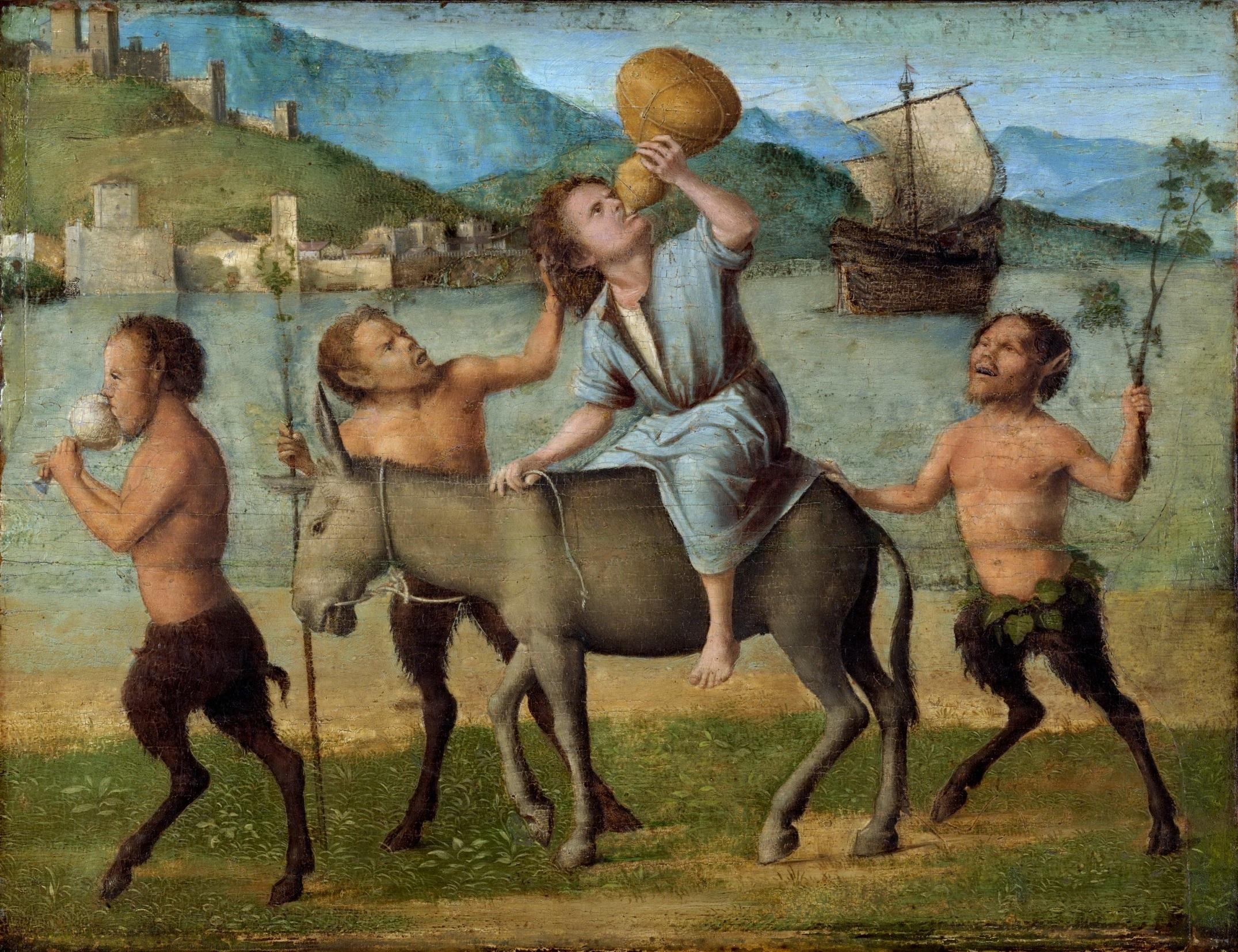 one of 4 parts of the Marriage of Bacchus and Arianne